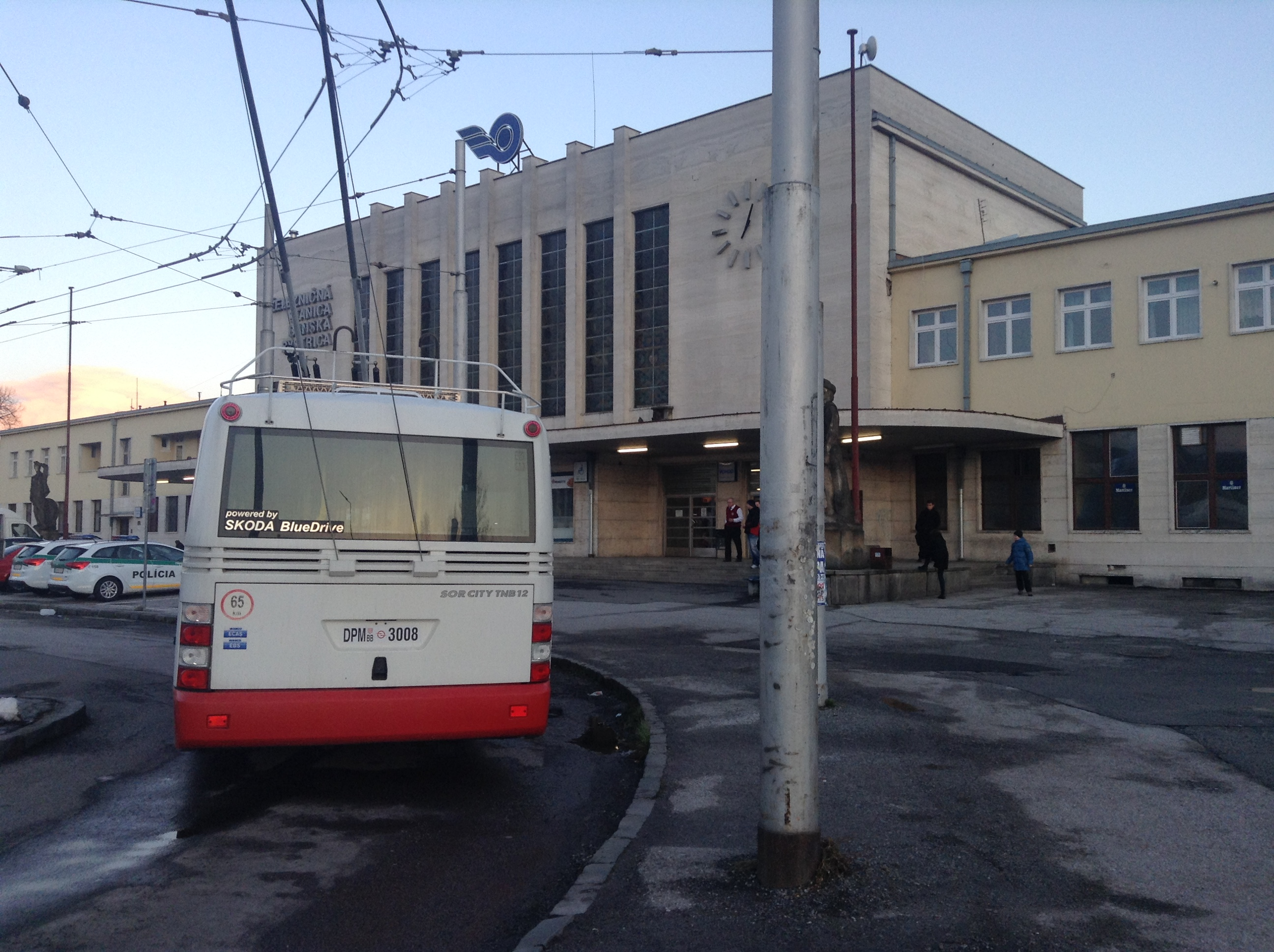 Railway station and trolleybus terminal Banská Bystrica in April 2015.